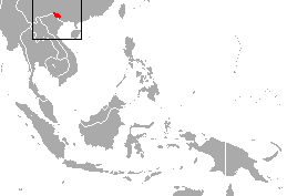 Eastern Black Crested Gibbon (Nomascus nasutus) range (excluding Hainan Black Crested Gibbon (Hainan Black Crested Gibbon) range